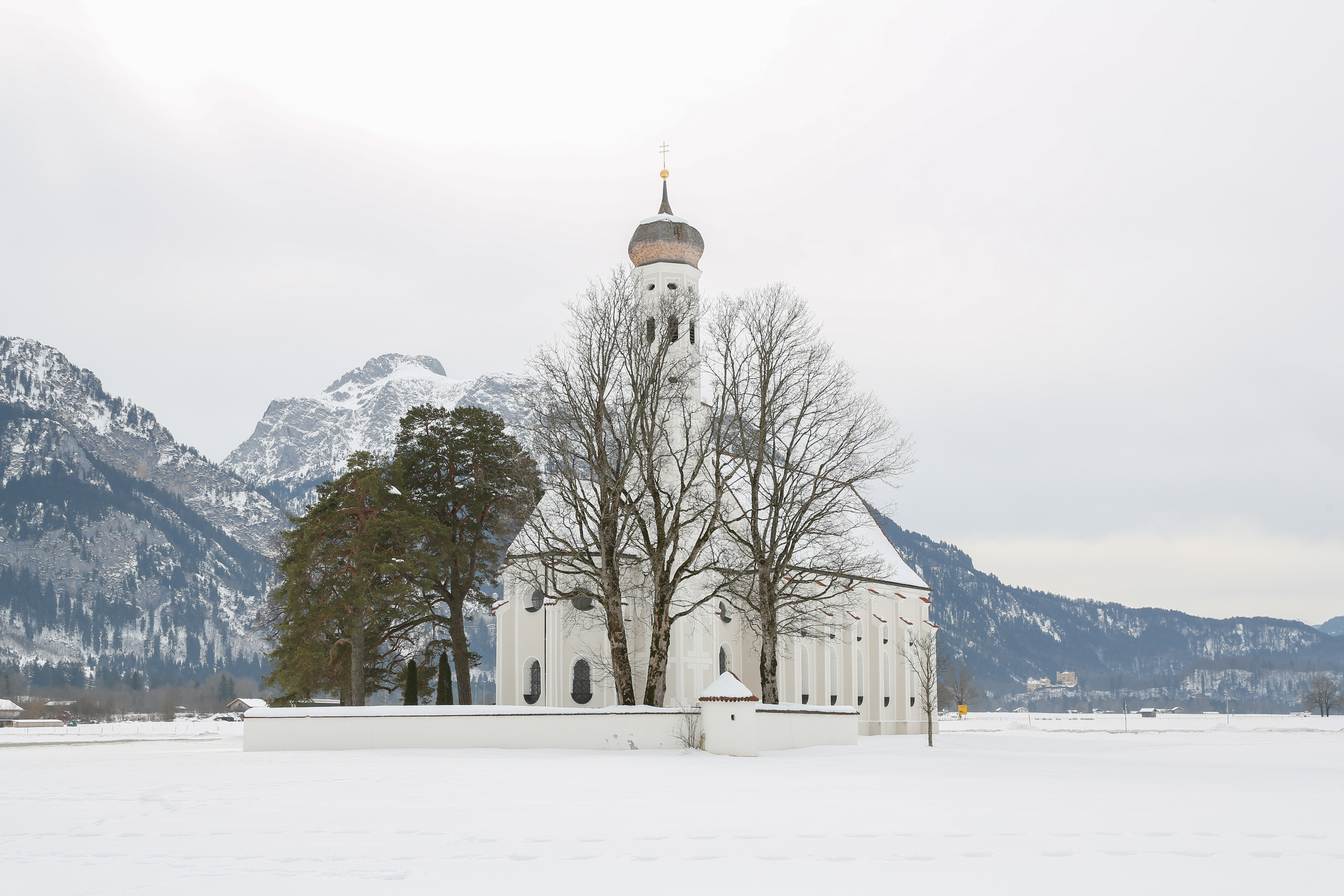 St Coloman church, Schwangau, Germany